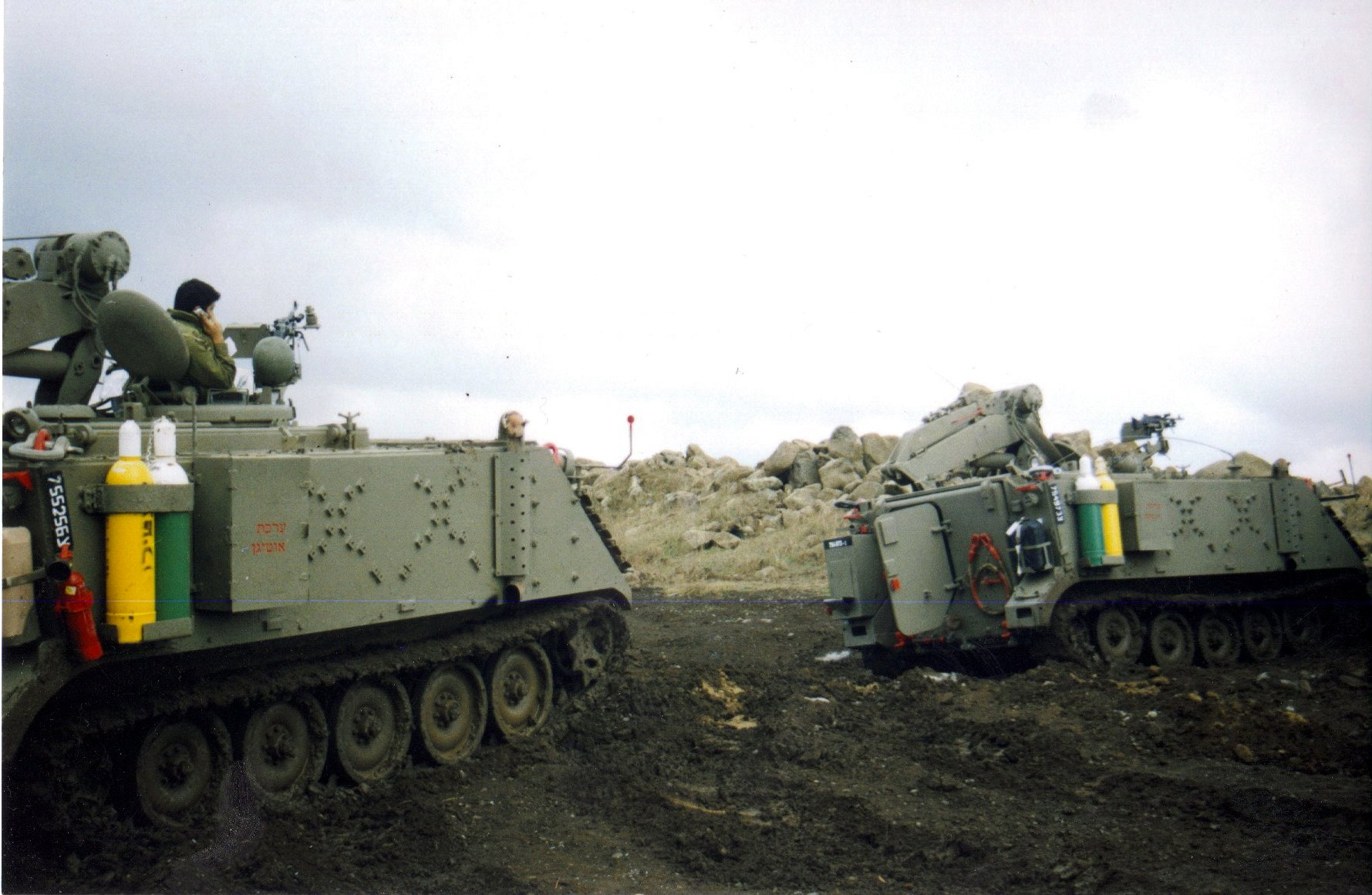 Armoured Recovery M-113 used by the IDF